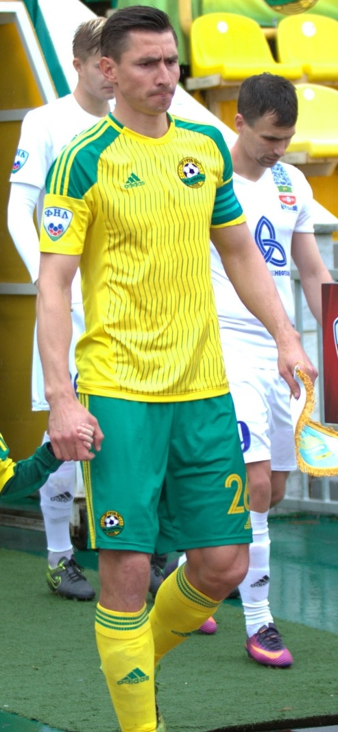 Sergei Bendz with FC Kuban Krasnodar in a game against FC Neftekhimik Nizhnekamsk.